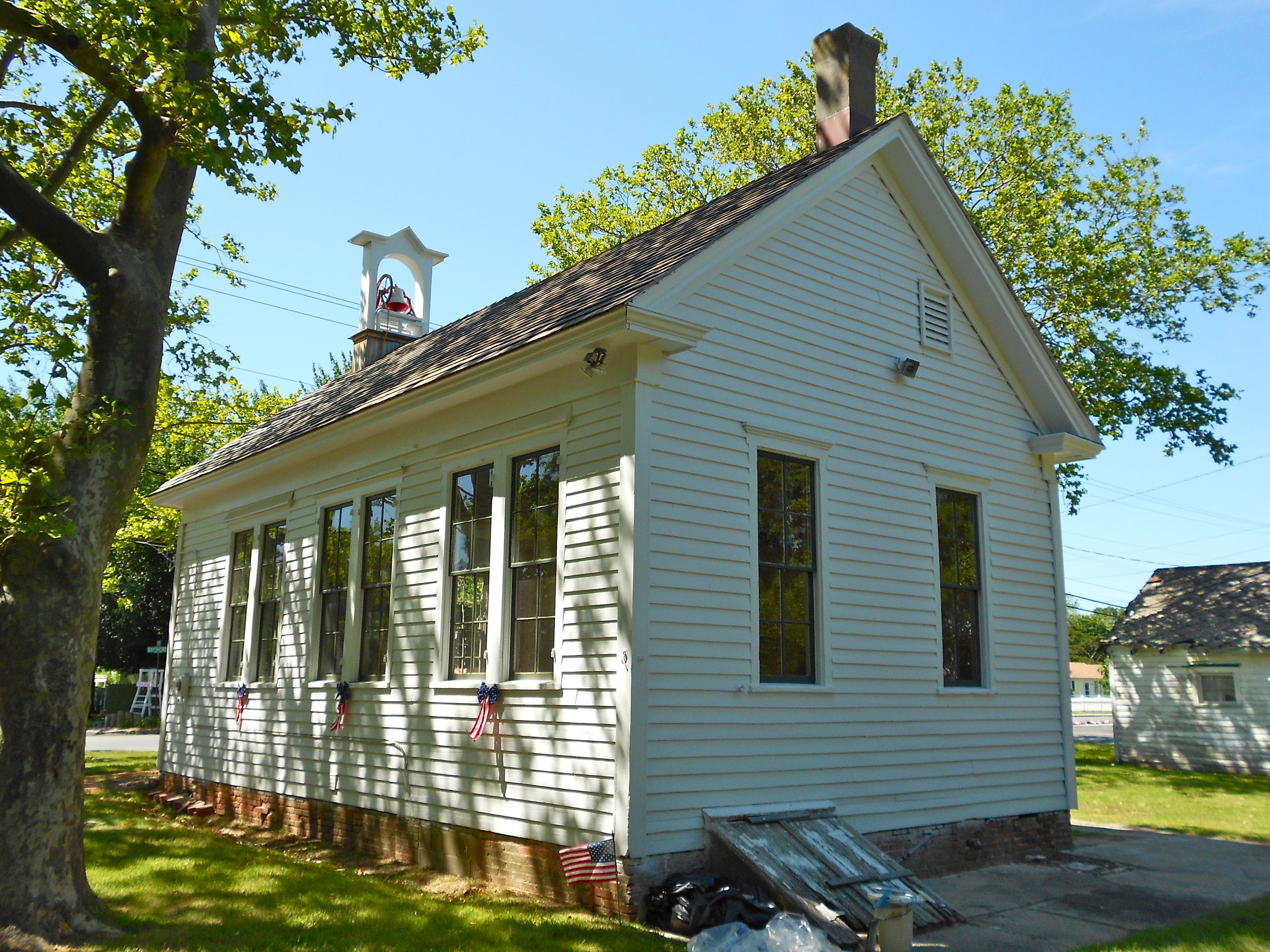 Fishing Creek Schoolhouse in Villas, New Jersey, on the National Register of Historic Places